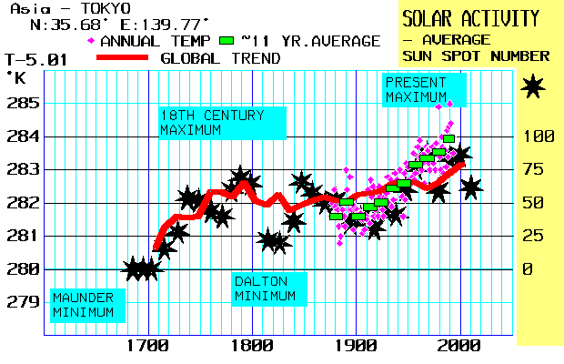 Global warmings and coolings 1700-2007